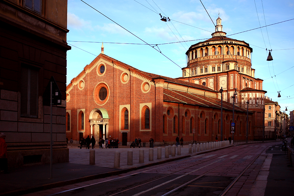 Santa Maria delle Grazie in Milan, Italy; view from Corso Magenta